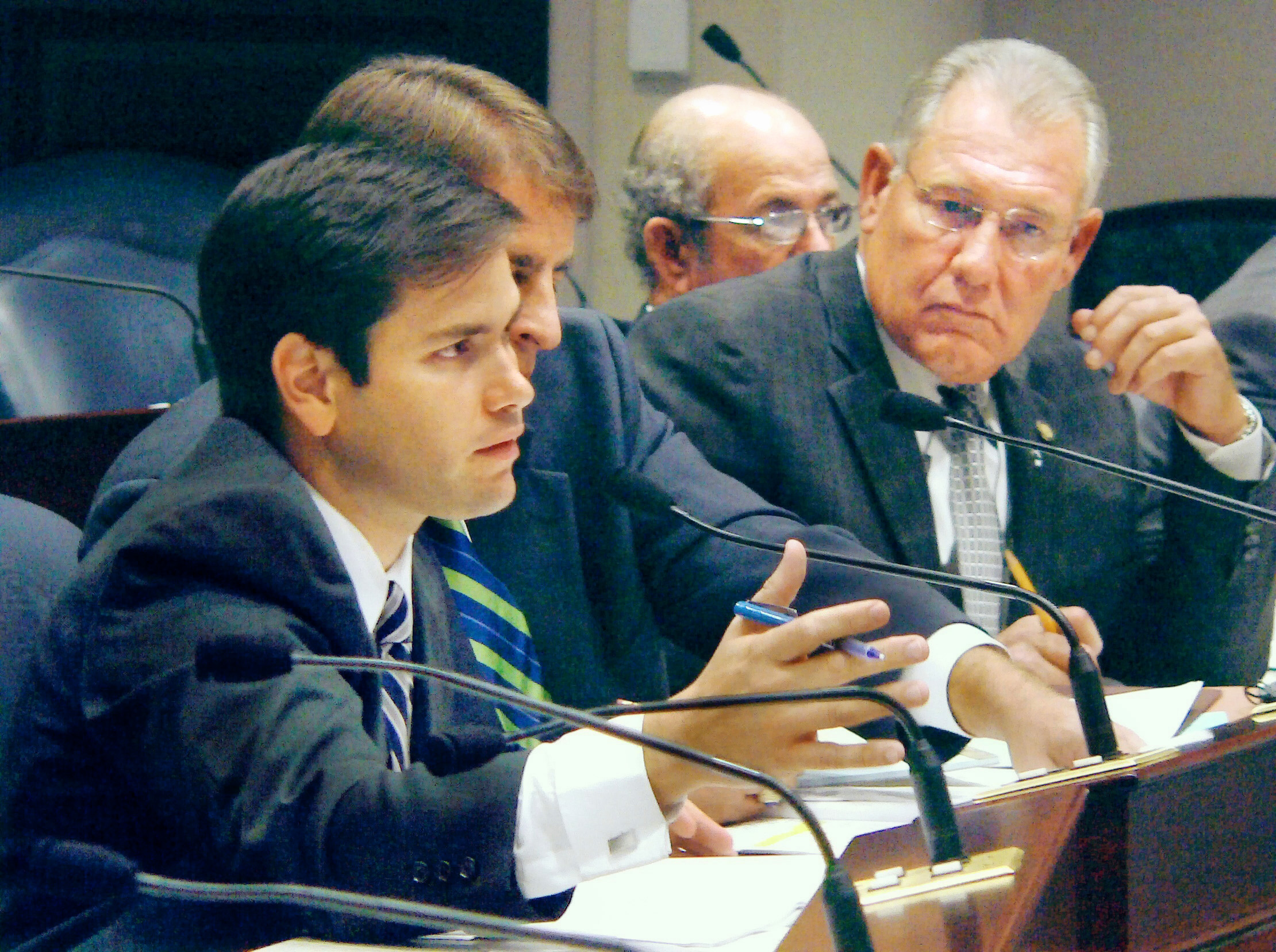 House Select Committee to Private Property Rights Chairman Rep. Marco Rubio, R-Miami, left, guides discussion Oct. 18, 2005, in Tallahassee, Florida. From the left show Representatives: Rubio; John Seiler, D-Pompano Beach; Dwight Stansel, D-Live Oak; and Greg Evers, R-Milton.